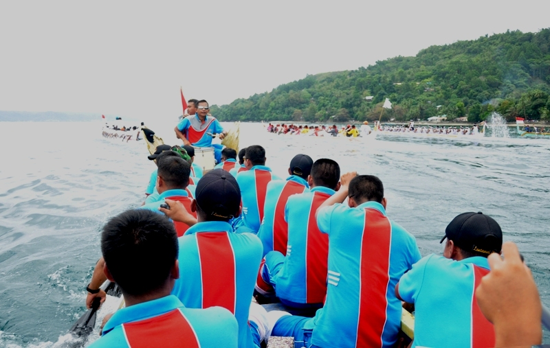 Lomba Arumbae Manggurebe